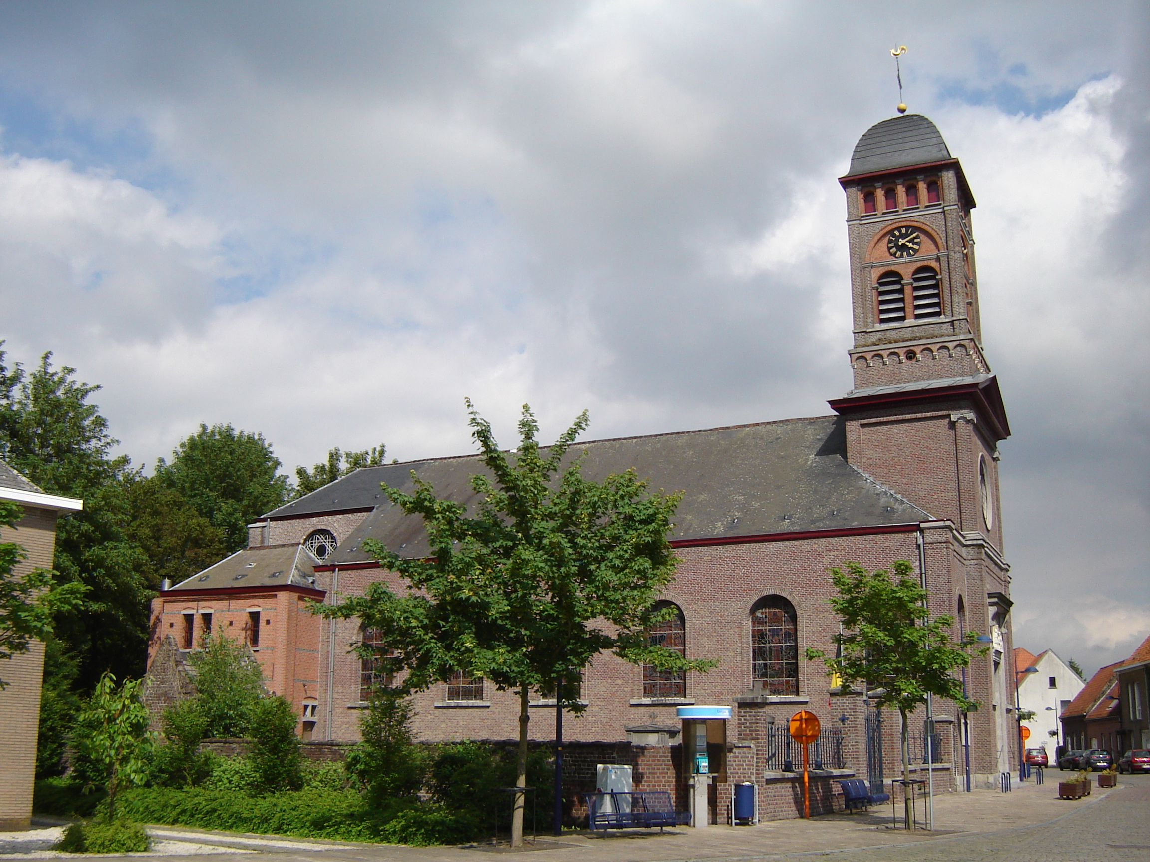 Church of Saint Bavo, in Vinderhoute, Lovendegem, East Flanders, Belgium